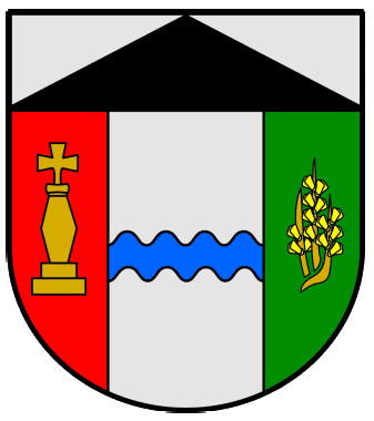 Coat of arms of Heilbach